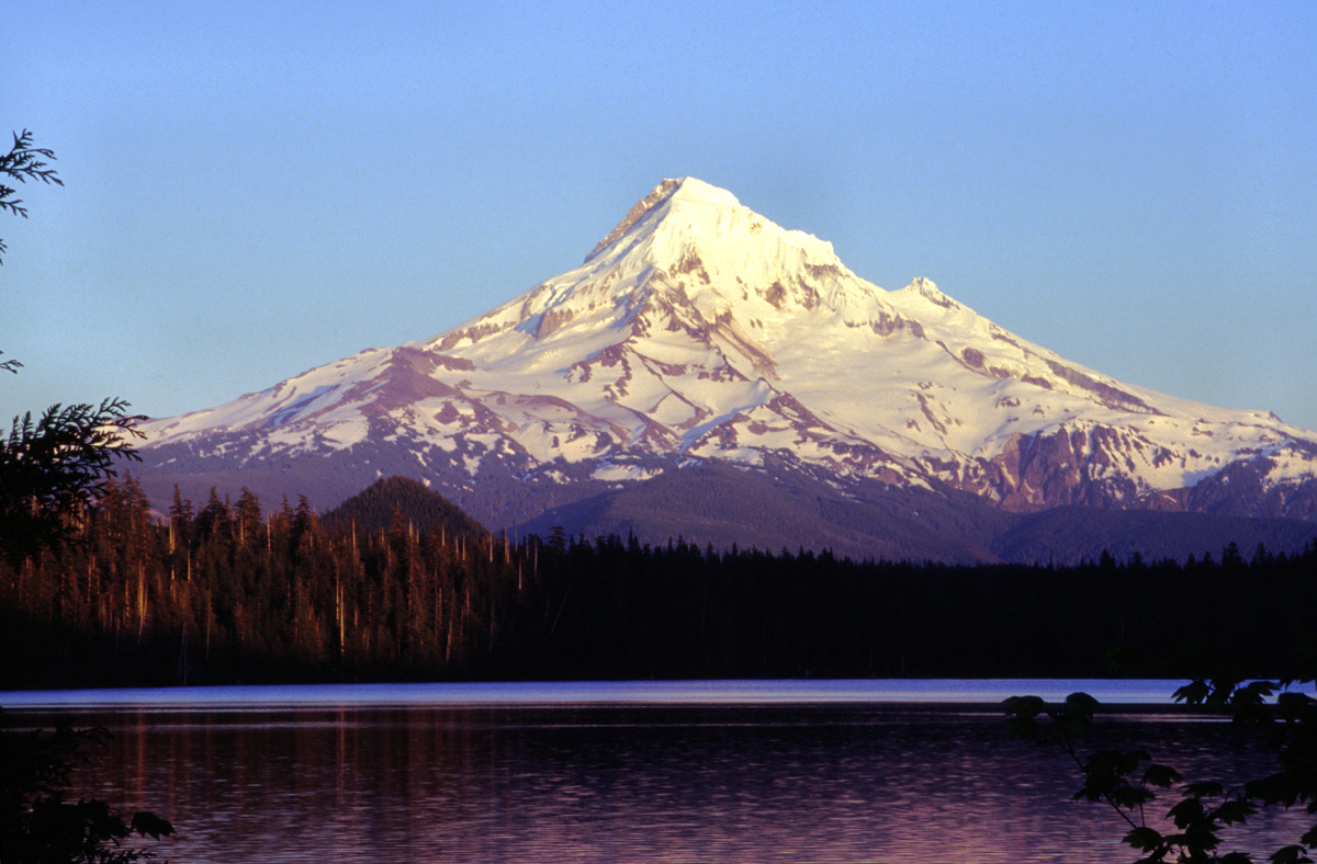 Mount Hood as seen from Lost Lake, Oregon